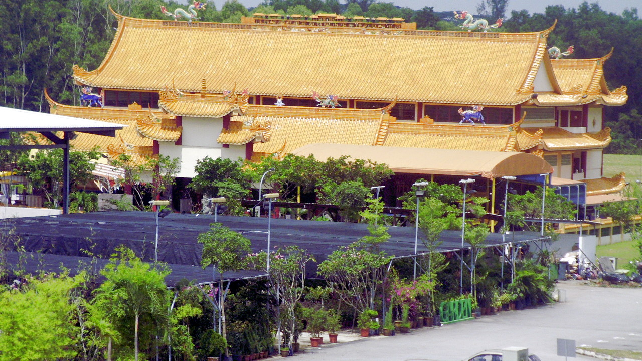 Sheng Jia Temple, Punggol East, Singapore.